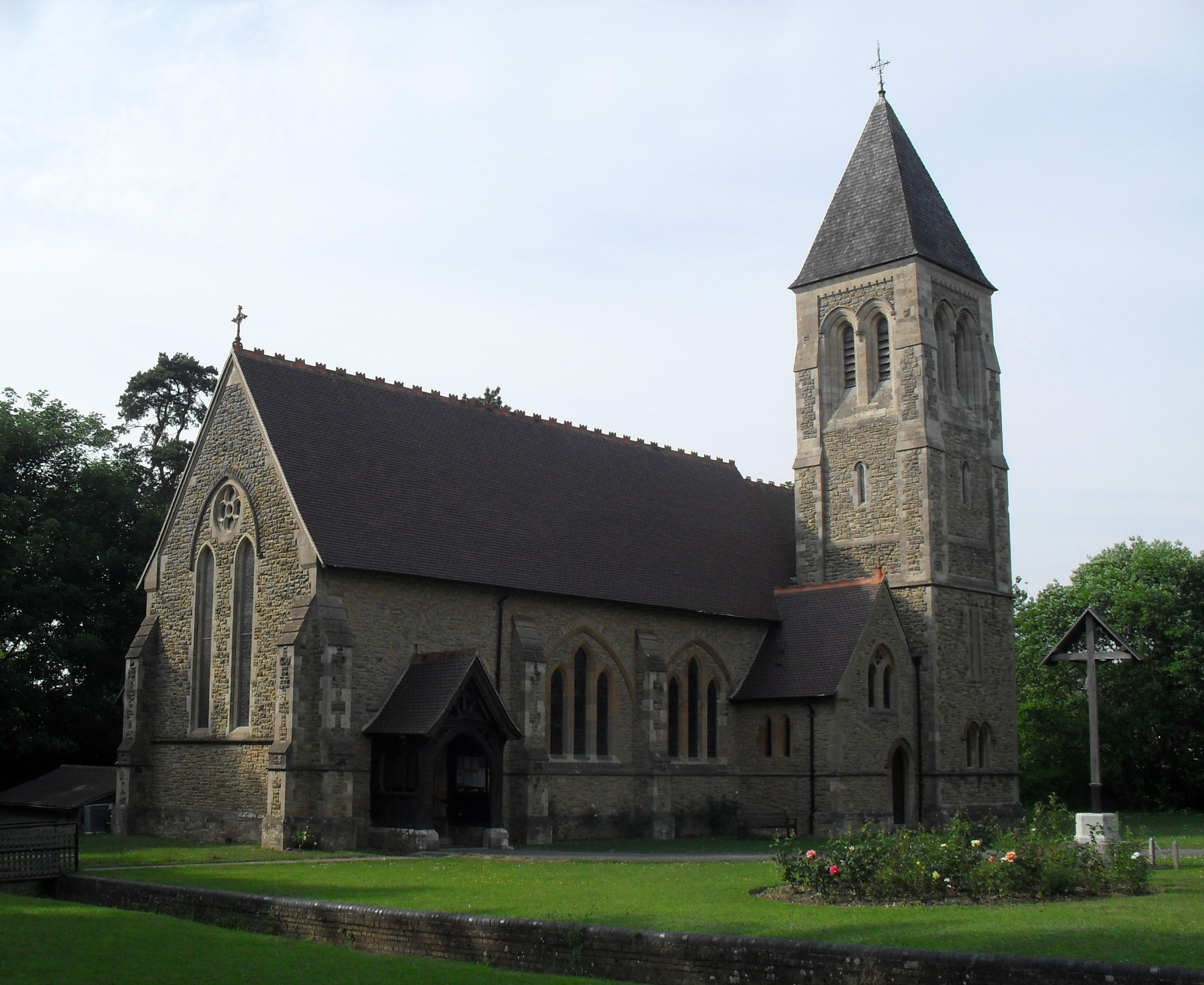 All Saints Church, Crawley Road, Roffey, District of Horsham, West Sussex, England. A large sandstone church built to serve this Victorian suburb of Horsham. It was designed in 1878 by Sir Arthur Blomfield, and is listed at Grade II by English Heritage (IoE Code 490135)